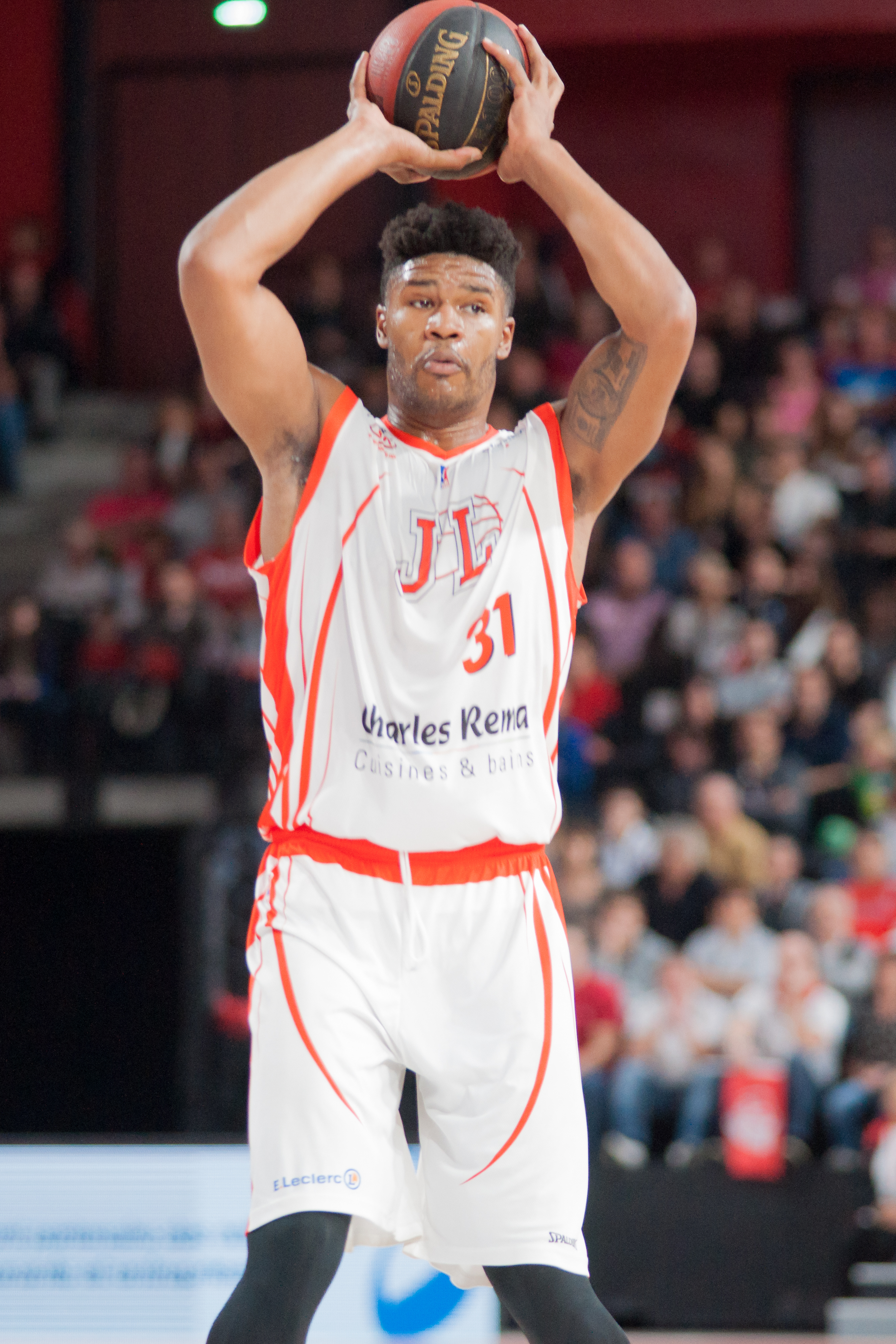 Bourg-en-Bresse vs. Paris-Levallois, 15th November 2014